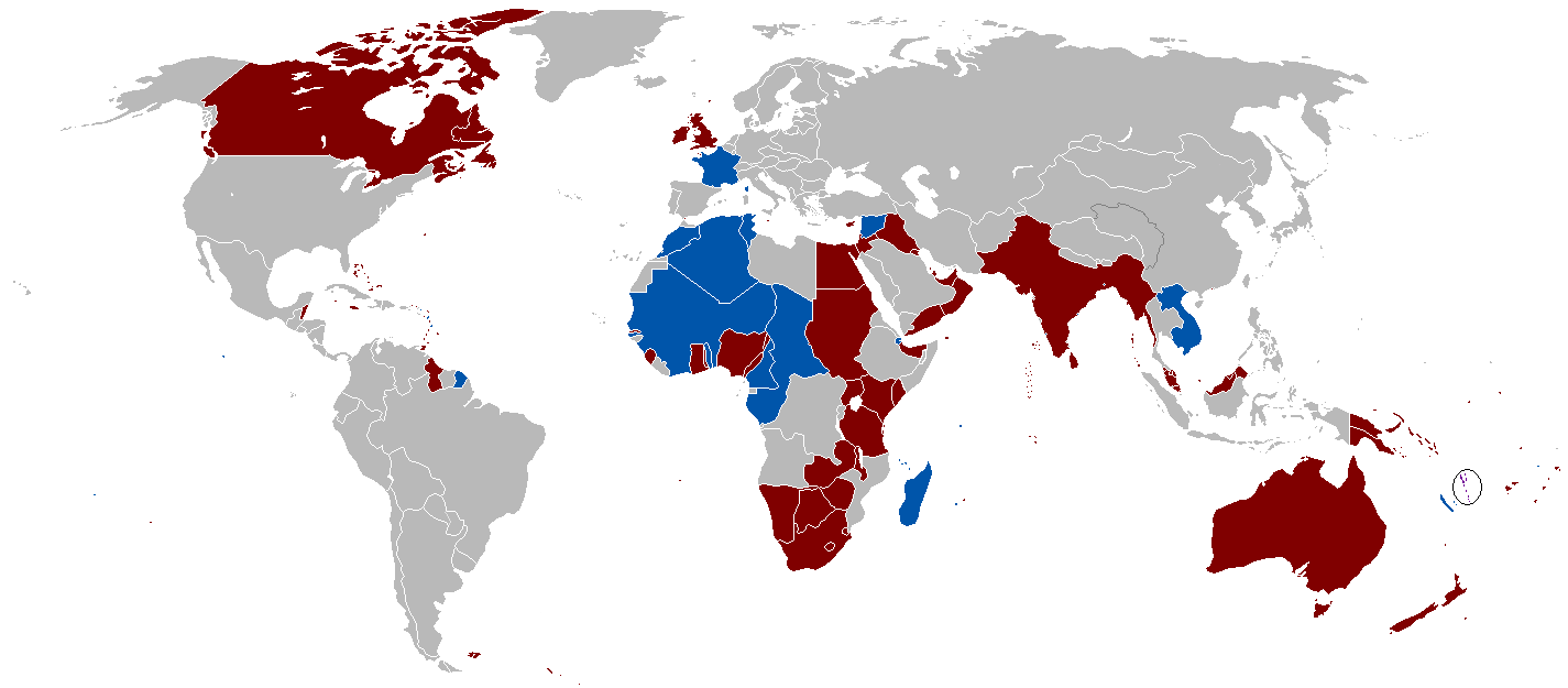 A map of the British Empire and French Colonial Empire in 1920. Shared territory is circled.